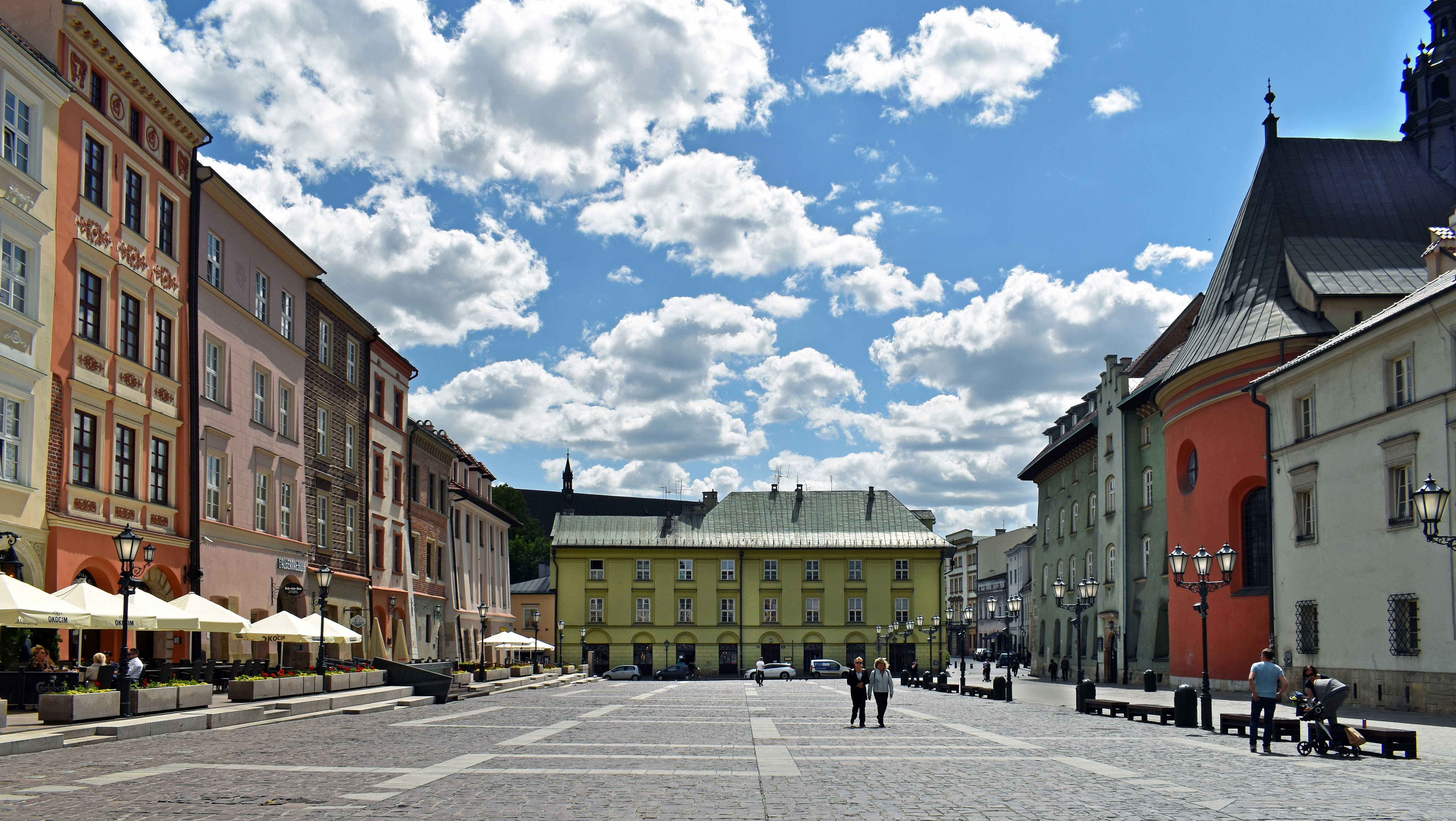 Little Market square, view to S, Old Town, Kraków, Poland